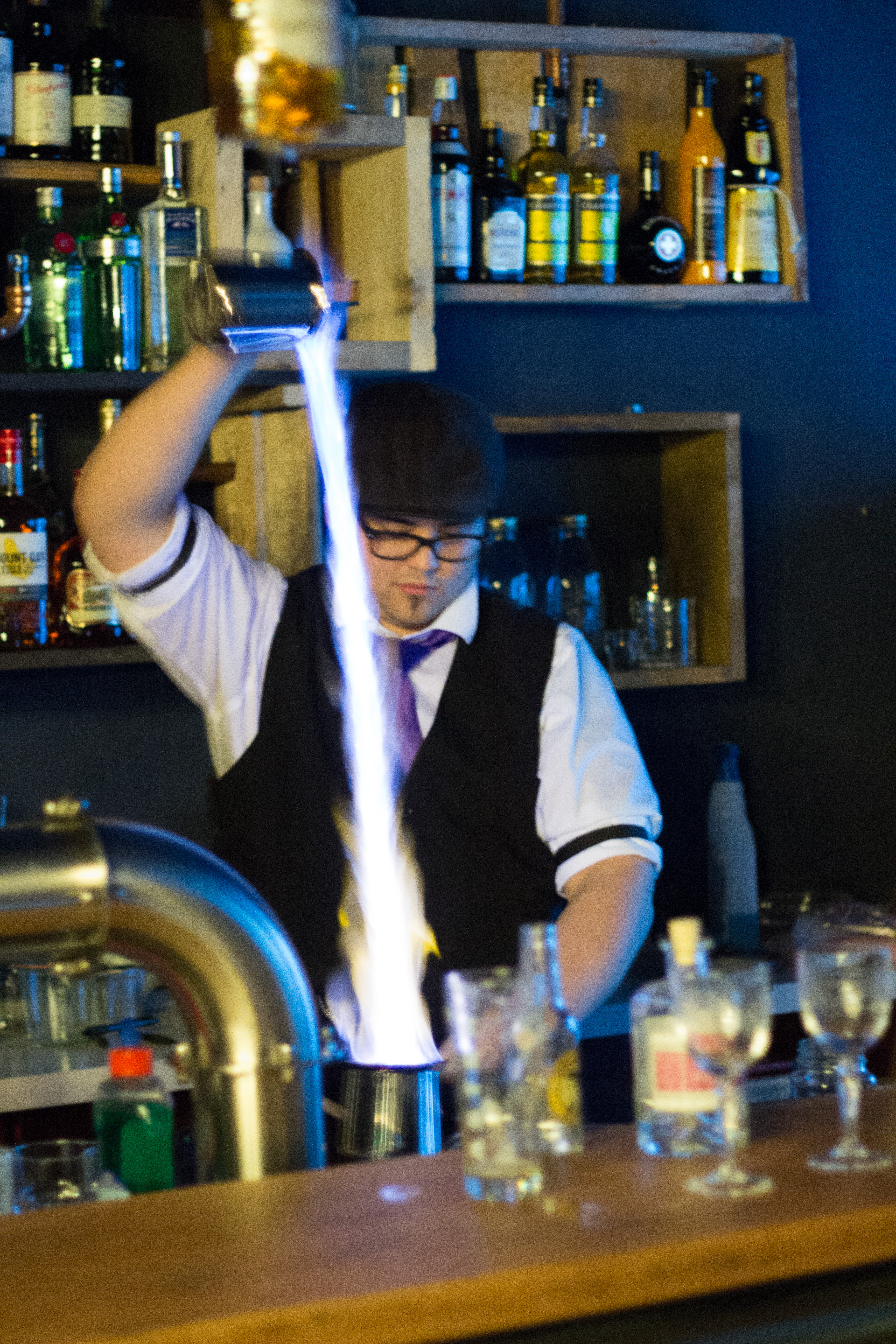 Bartender preparing a Blue Blazer Cocktail, which consists of high-proof spirits (usually Whisky) and boiling water. The mixture is ignited and, while burning, poured several times from one metal mug to another. The picture shows "Pät" (nickname), head bartender in the bar "Kleines Phi", Hamburg, Germany.)